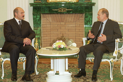 THE KREMLIN, MOSCOW. President Putin with Belarusian President Alexander Lukashenko.